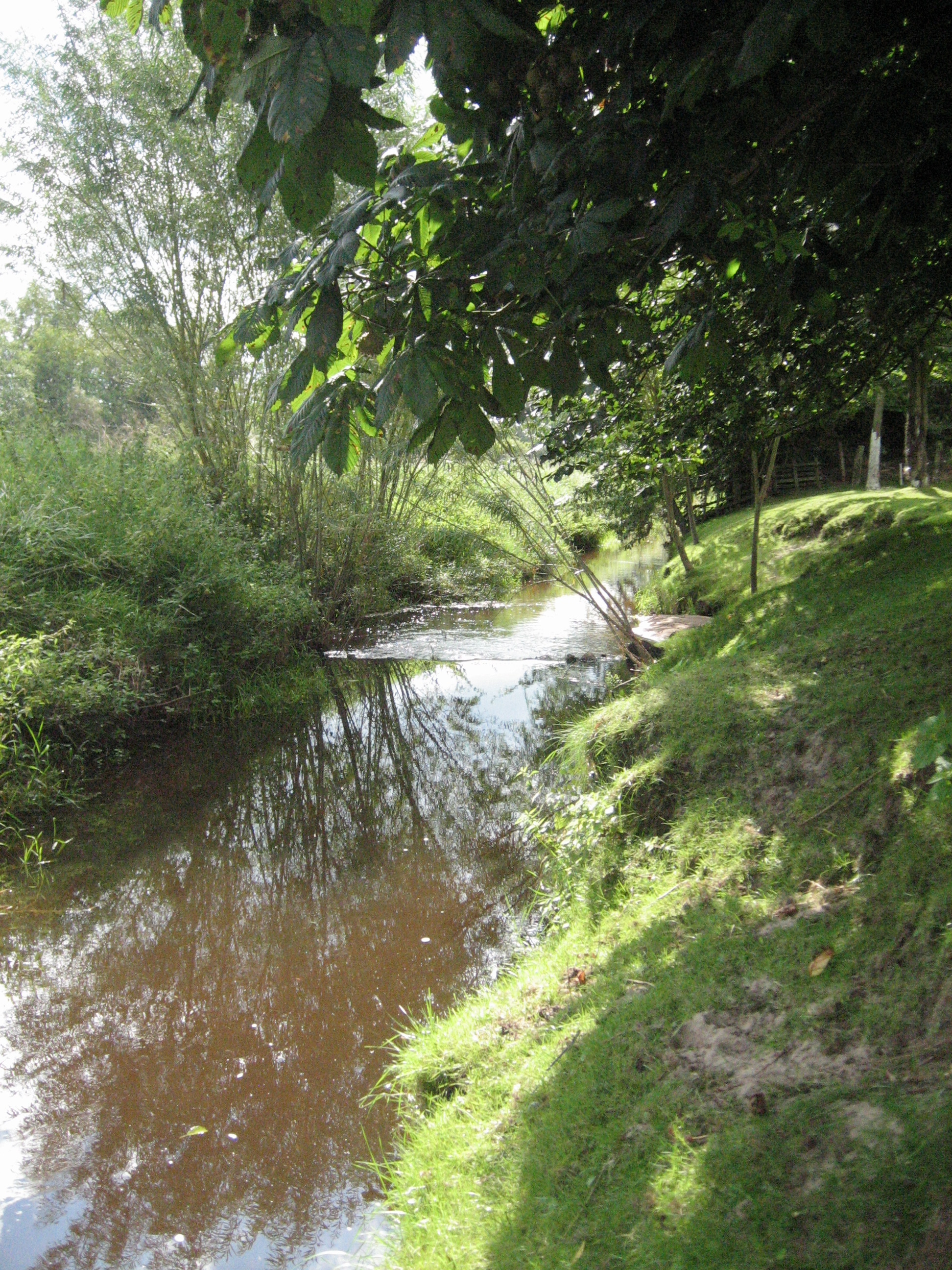 Ramme river in Lower Saxony, northern Germany near the villages of Ramshausen and Wohnste